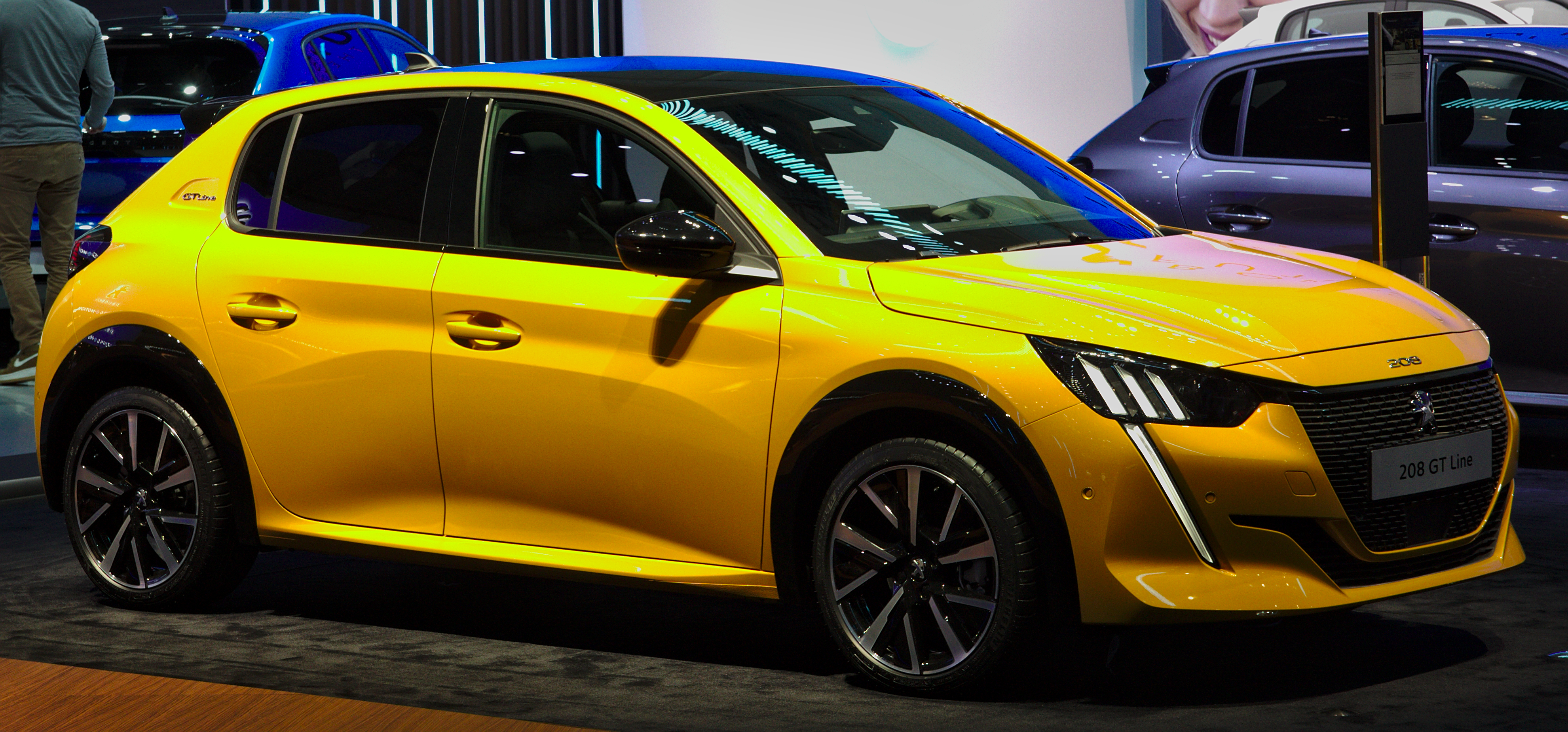 Peugeot 208 GT-Line at Geneva Motor Show 2019